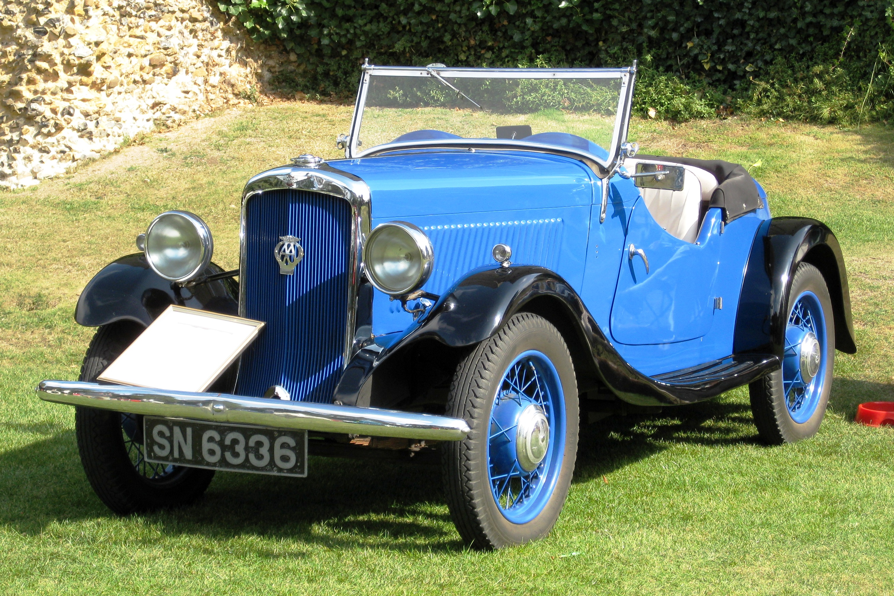 Hillman Minx with a special cabriolet body. car was first delivered in 1934, but reportedly unused 1939 - 1985